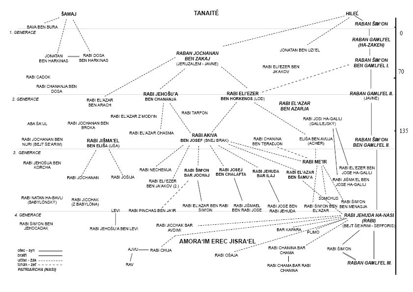 Succession of rabbinic scholars in the Mishnaic period